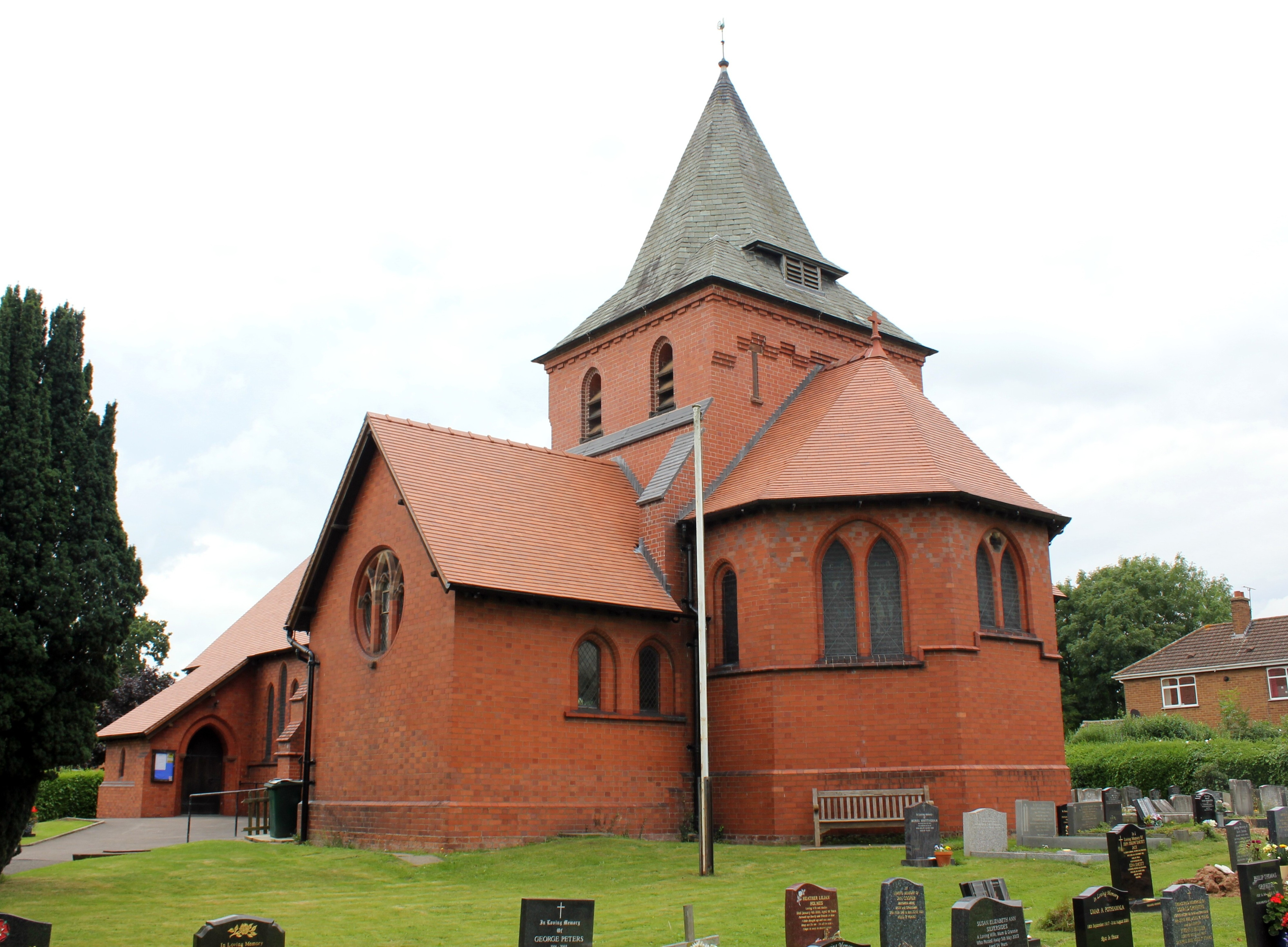 All Saints' parish church, Saughall, Cheshire, seen from the south